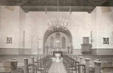 Classerkirken, interior